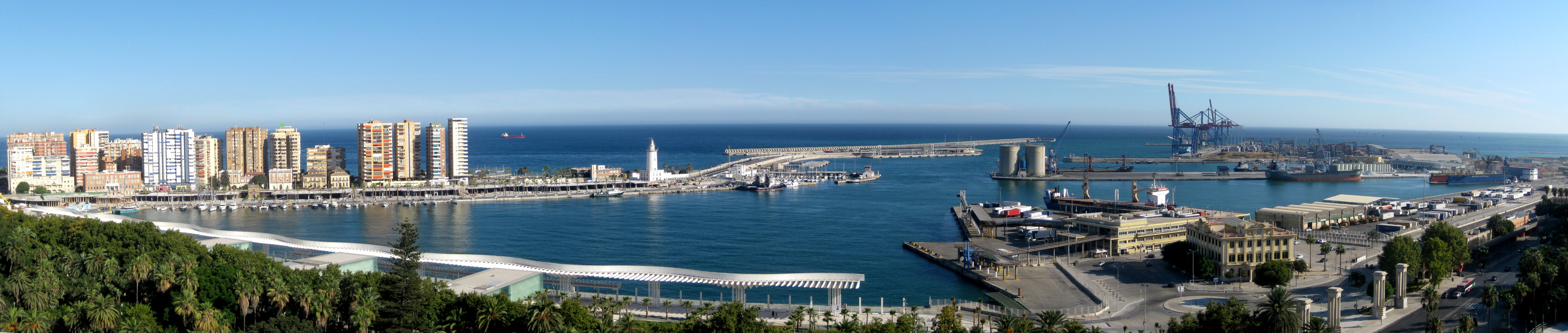 Malaga Harbour (Spain) - September 2011